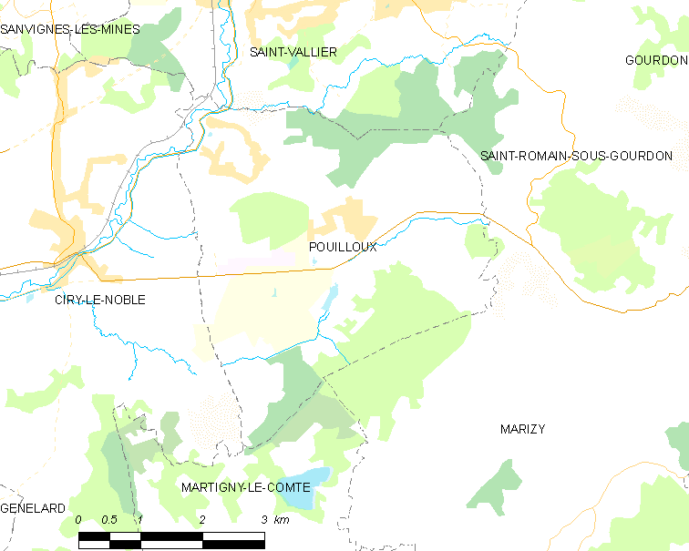 Map of French municipality